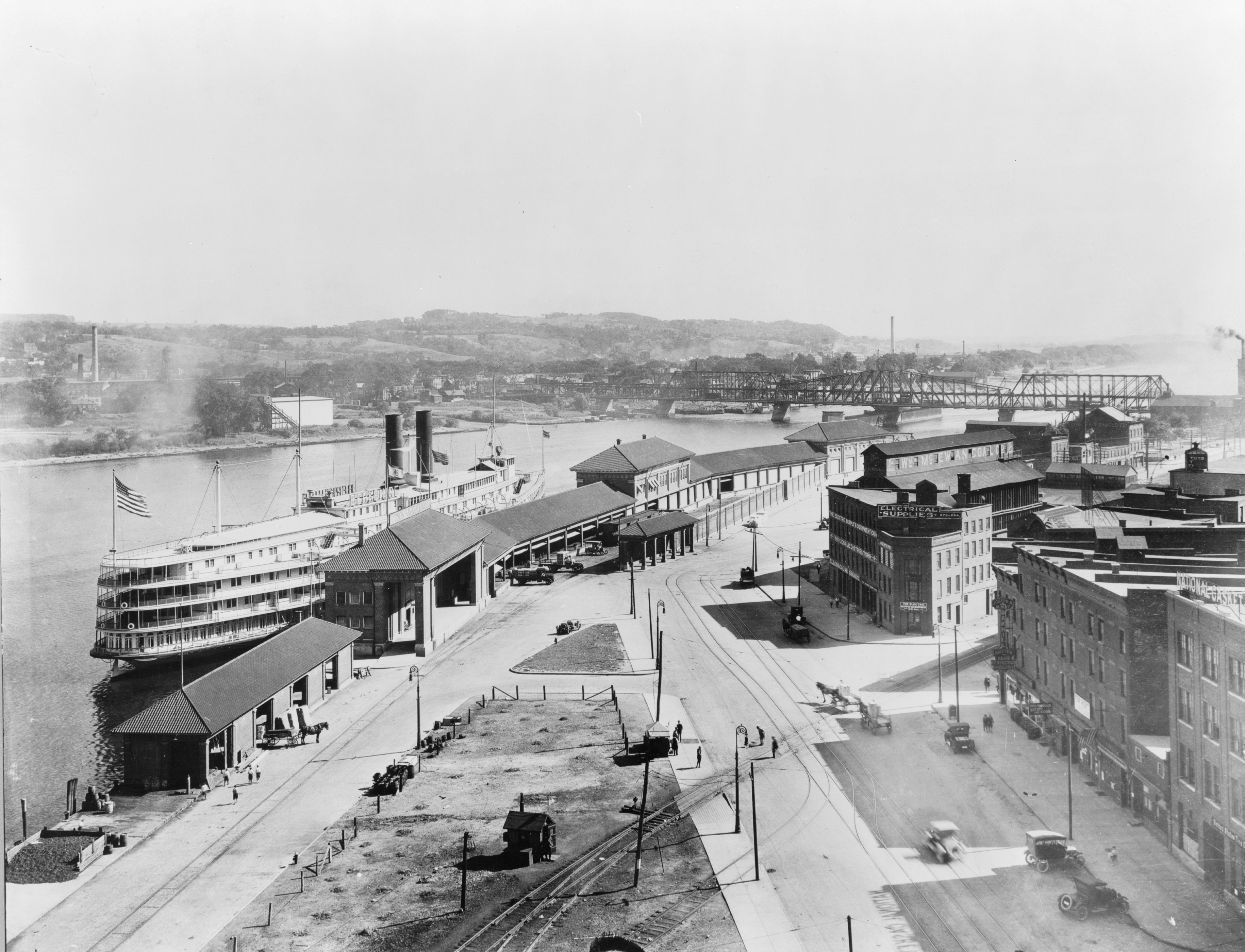 Broadway at Steamboat Square in Albany, New York with the original Dunn Memorial Bridge in the background.